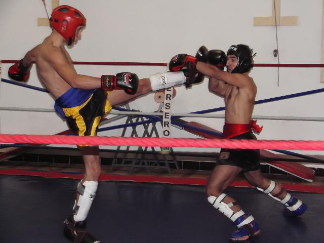 Bando kickboxing (amateurs).